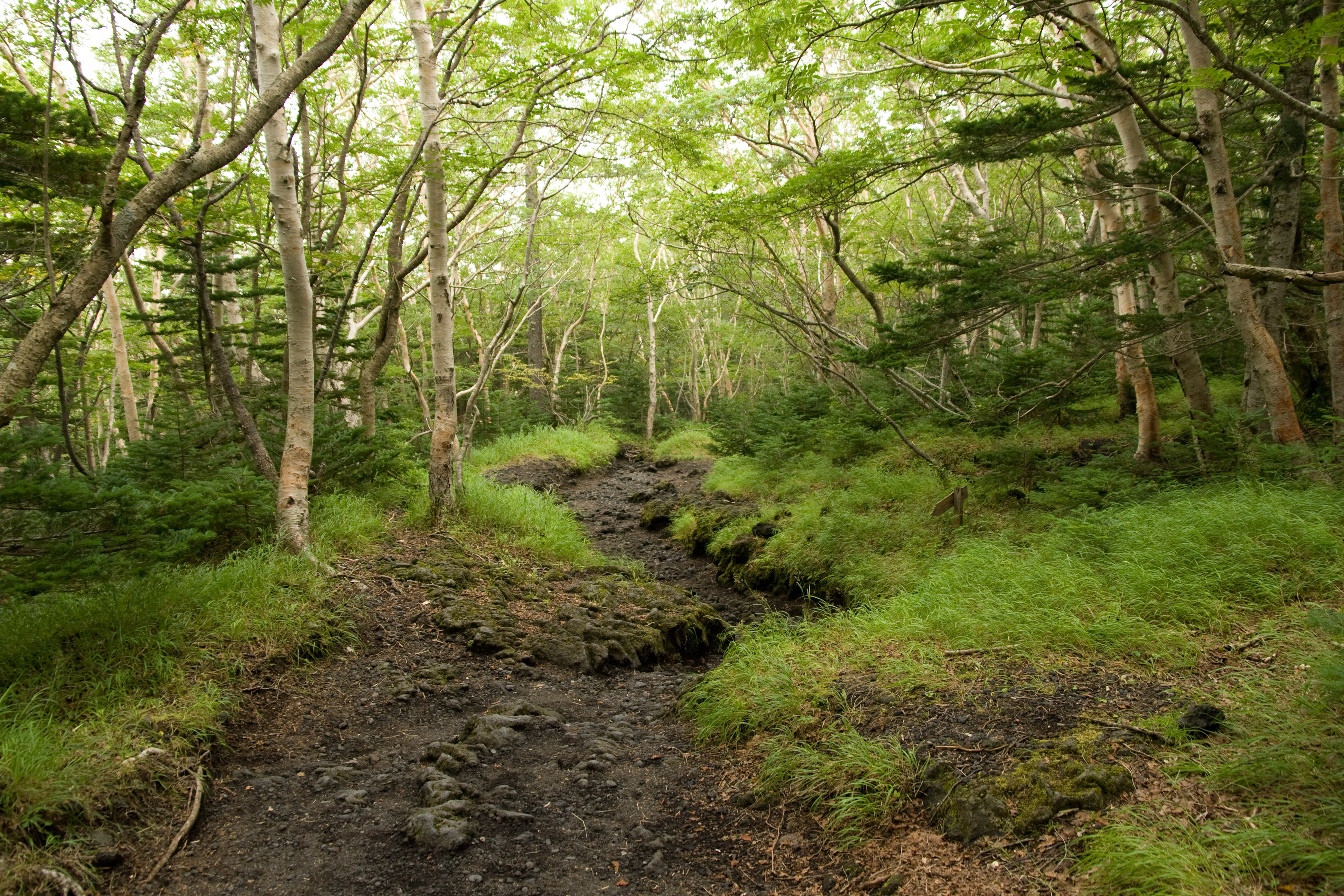 The forest in Mt.Fuji, Yamanashi and Shizuoka prefectures, Japan.